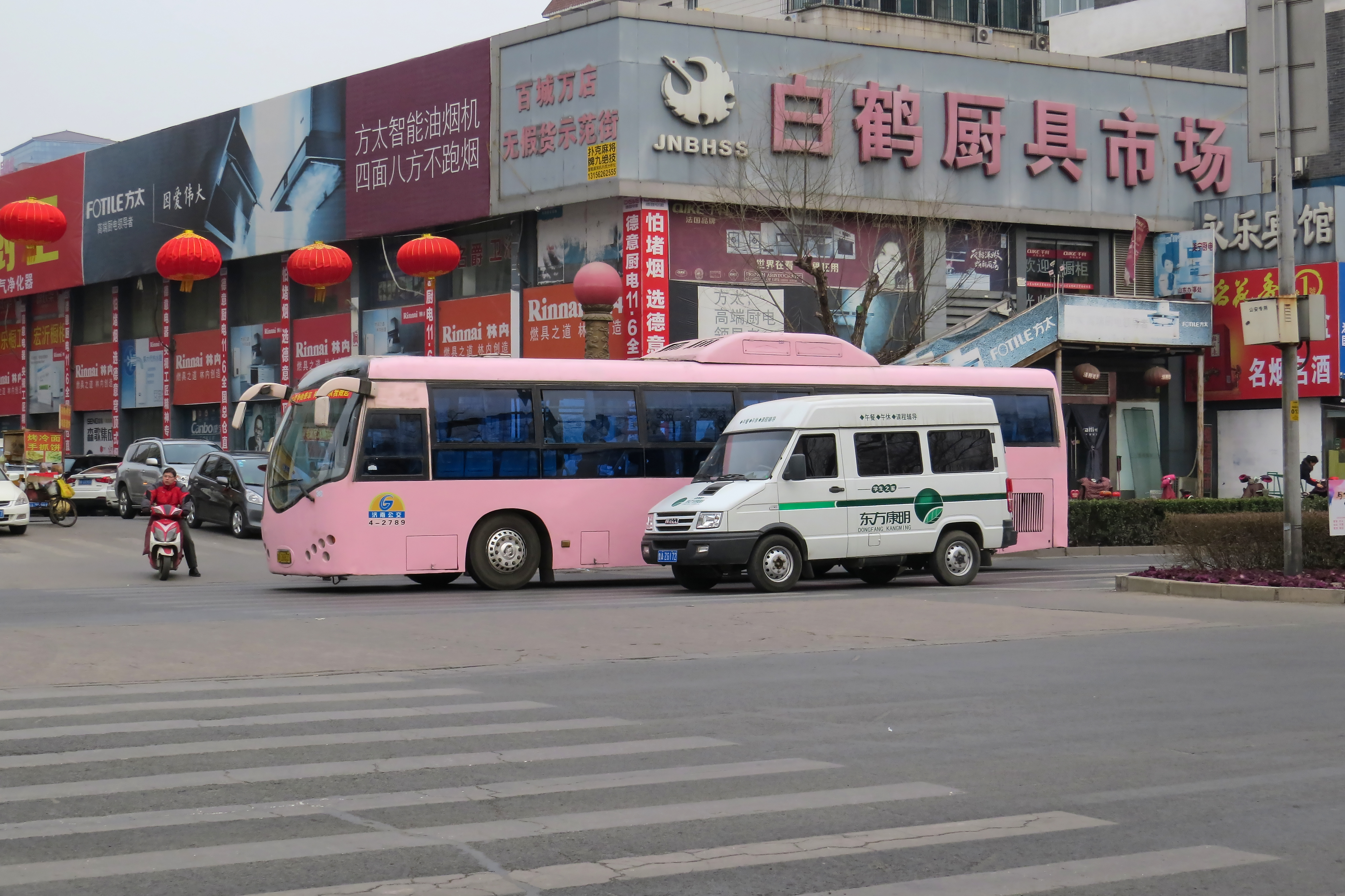 JK6122G is officially nicknamed "East Dragon" (伊斯特龙). Its bodywork is all too similar to Designline Olymbus.